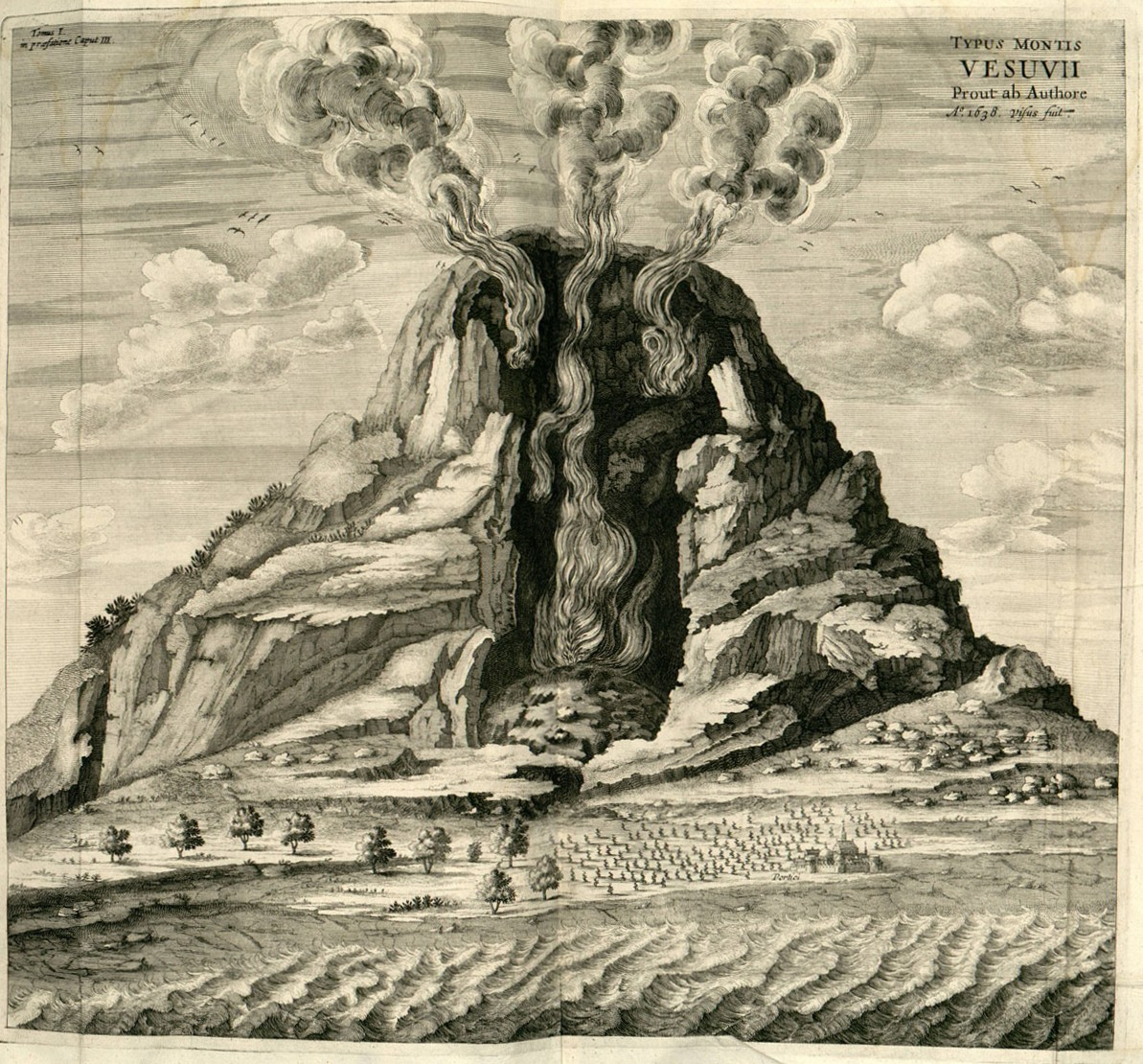 Illustration of mount Vesuvius as seen by the author in 1638. From Athanasius' Kircher Mundus Subterraneus, 1664.